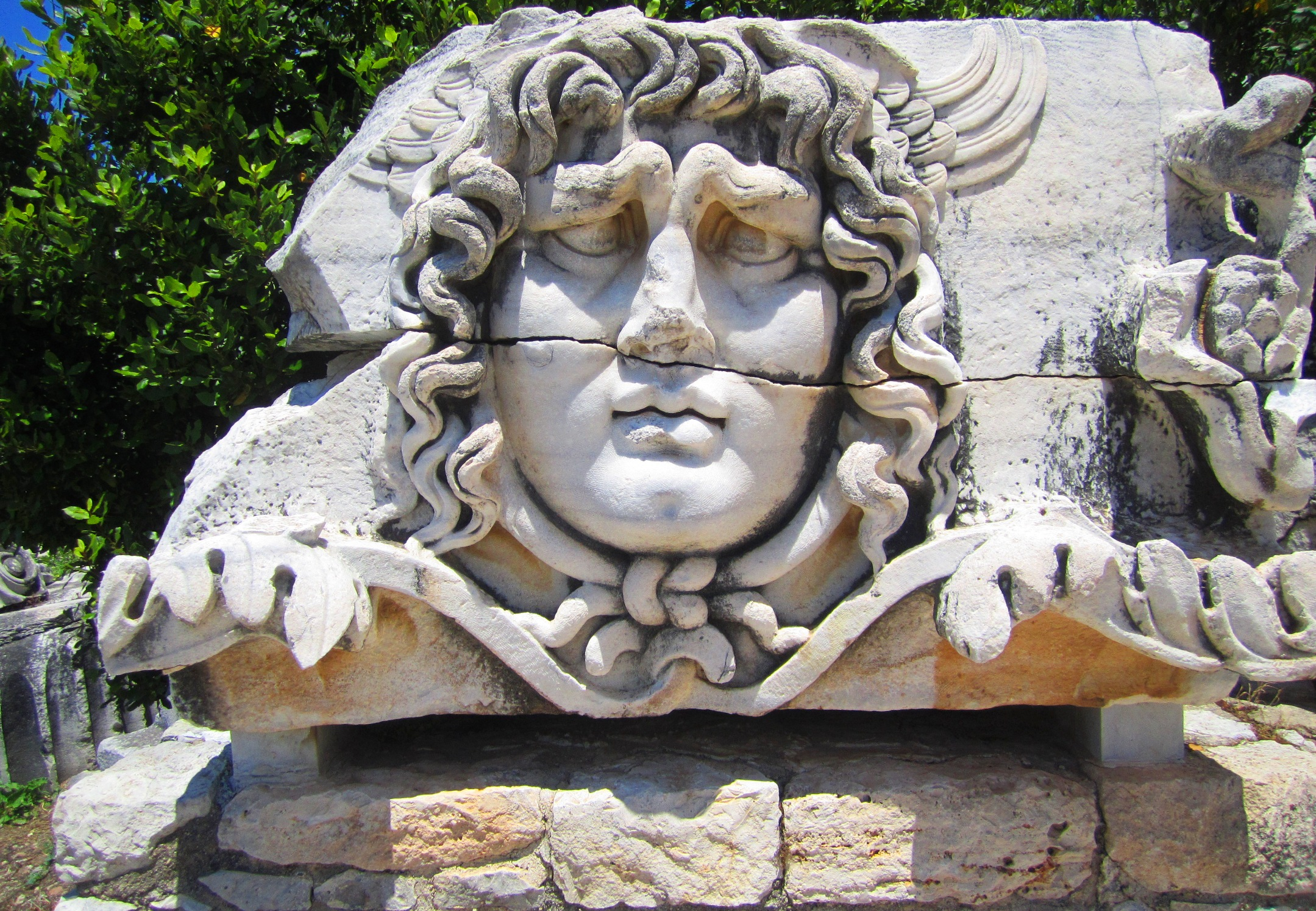 Gorgoneia in Didyma (2012)